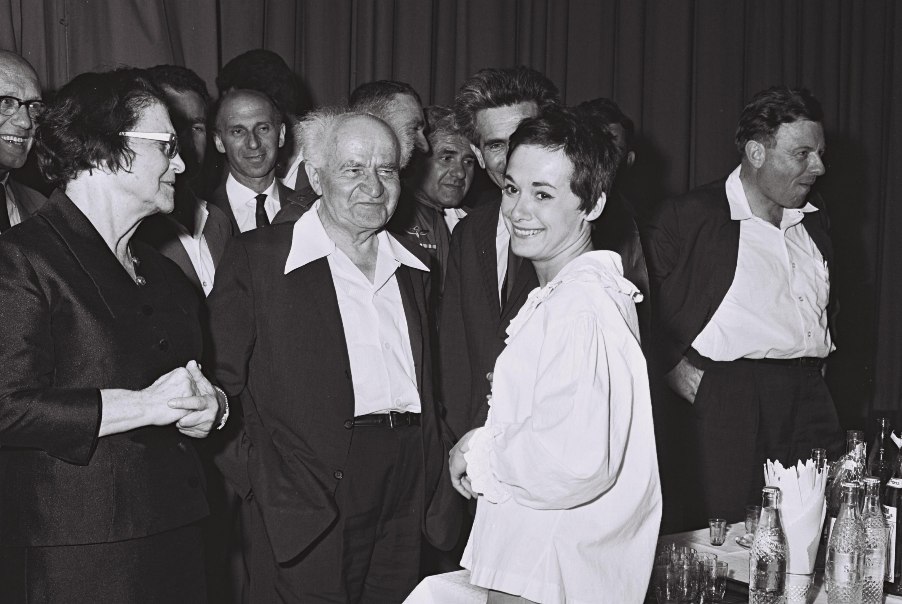 P.M. DAVID BEN GURION AND HIS WIFE PAULA WITH ACTRESS GERMAINE UNIKOVSKY, AT HAIFA'S MUNICIPAL THEATER.